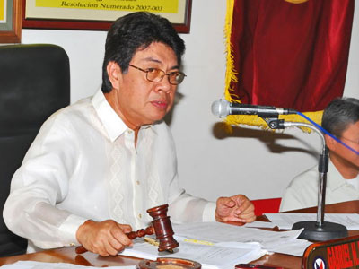 Vice-Mayor Gabriel Bordado presiding at a Naga City Legislative Council session